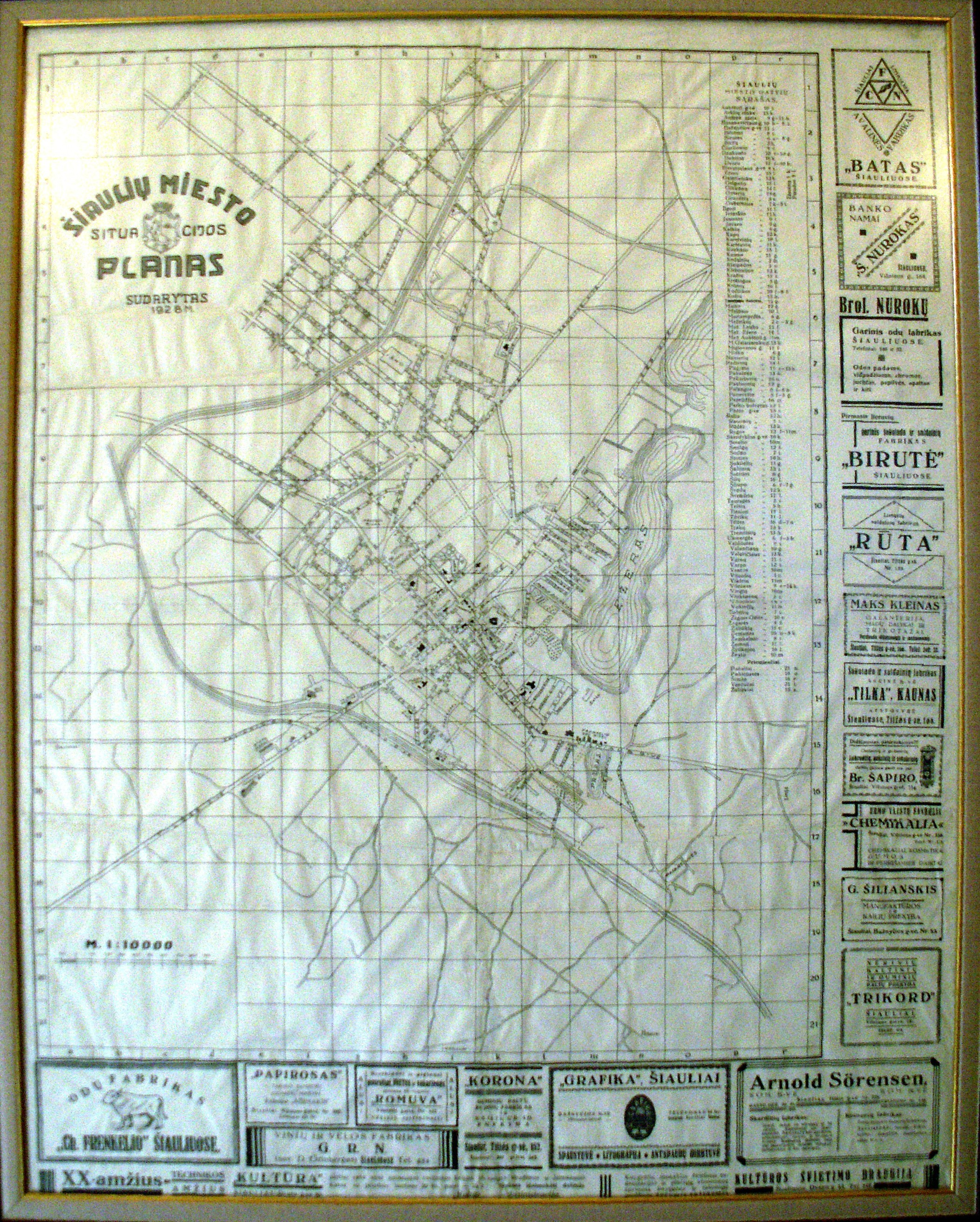 Plan of Šiauliai in 1925. Museum Aušra